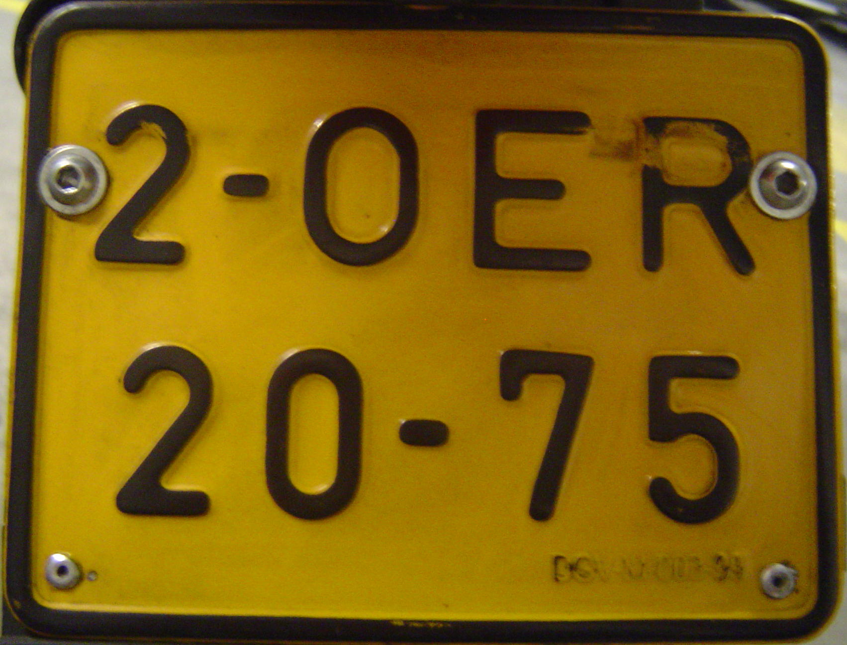 former Moped license plate of Portugal